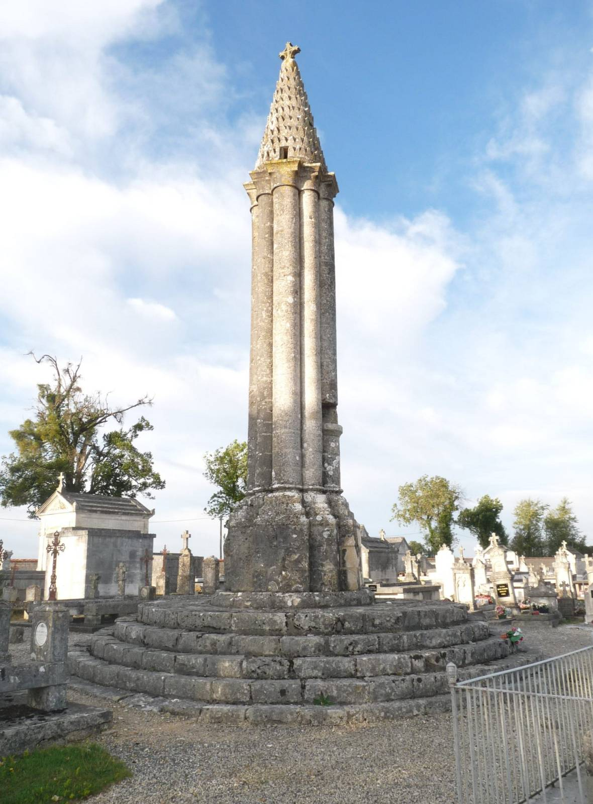 lantern of the deaths of Cellefrouin, Charente, SW France